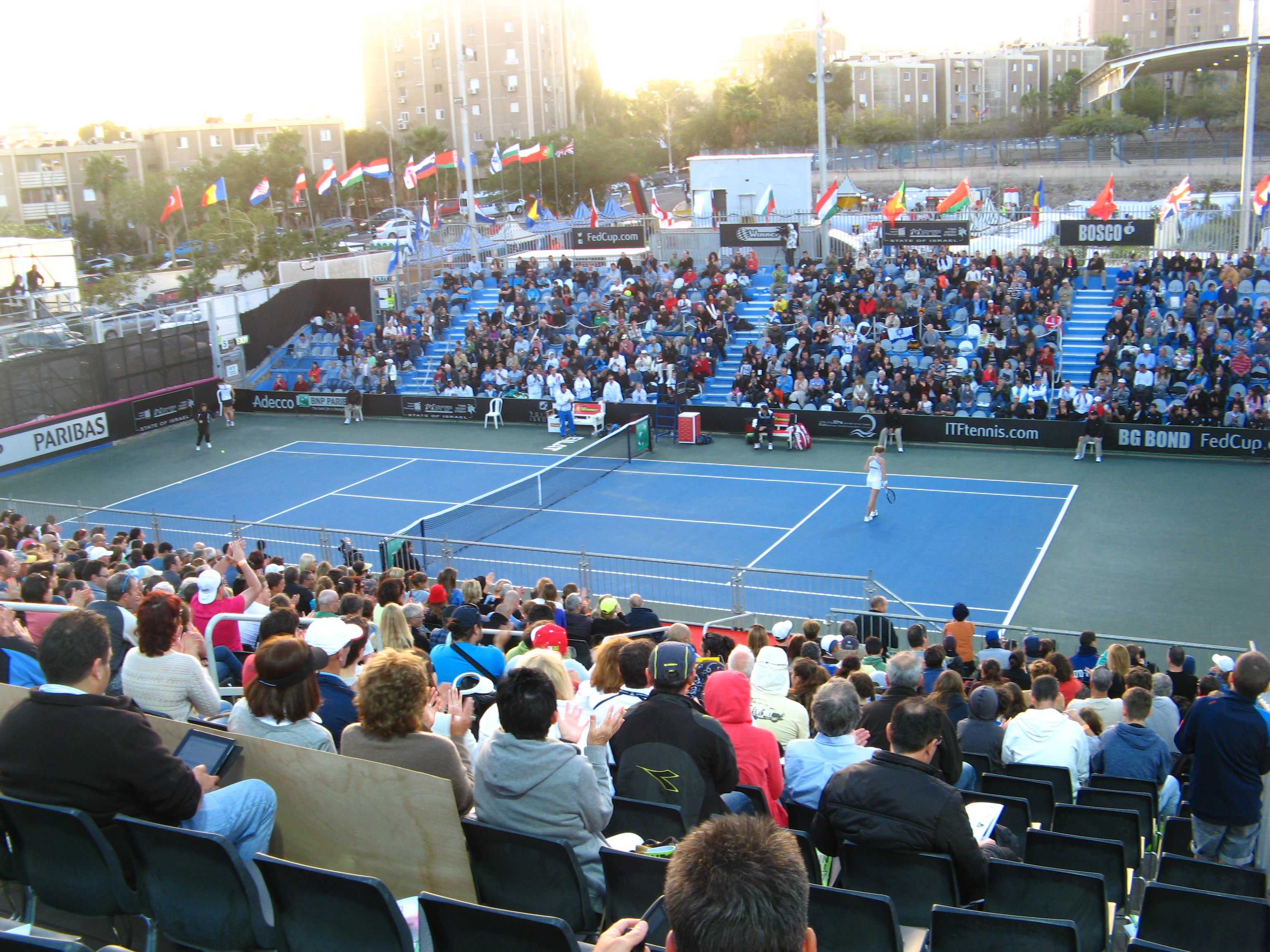 The center court of the venue of the Fed Cup Group I 2013 Europe/ Africa tournament in Eilat, Israel. The picture was taken during the match between Cristina Dinu of Romania and Julia Glushko of Israel.